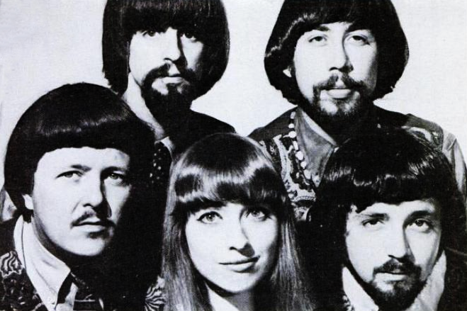 Trade ad for The Spike Drivers's single "Baby Won't You Tell Me How I Lost My Mind". To better adapt it to his respective Wikipedia article, the ad was cropped and cleaned in a graphics editing program. The original can be viewed at the source below.